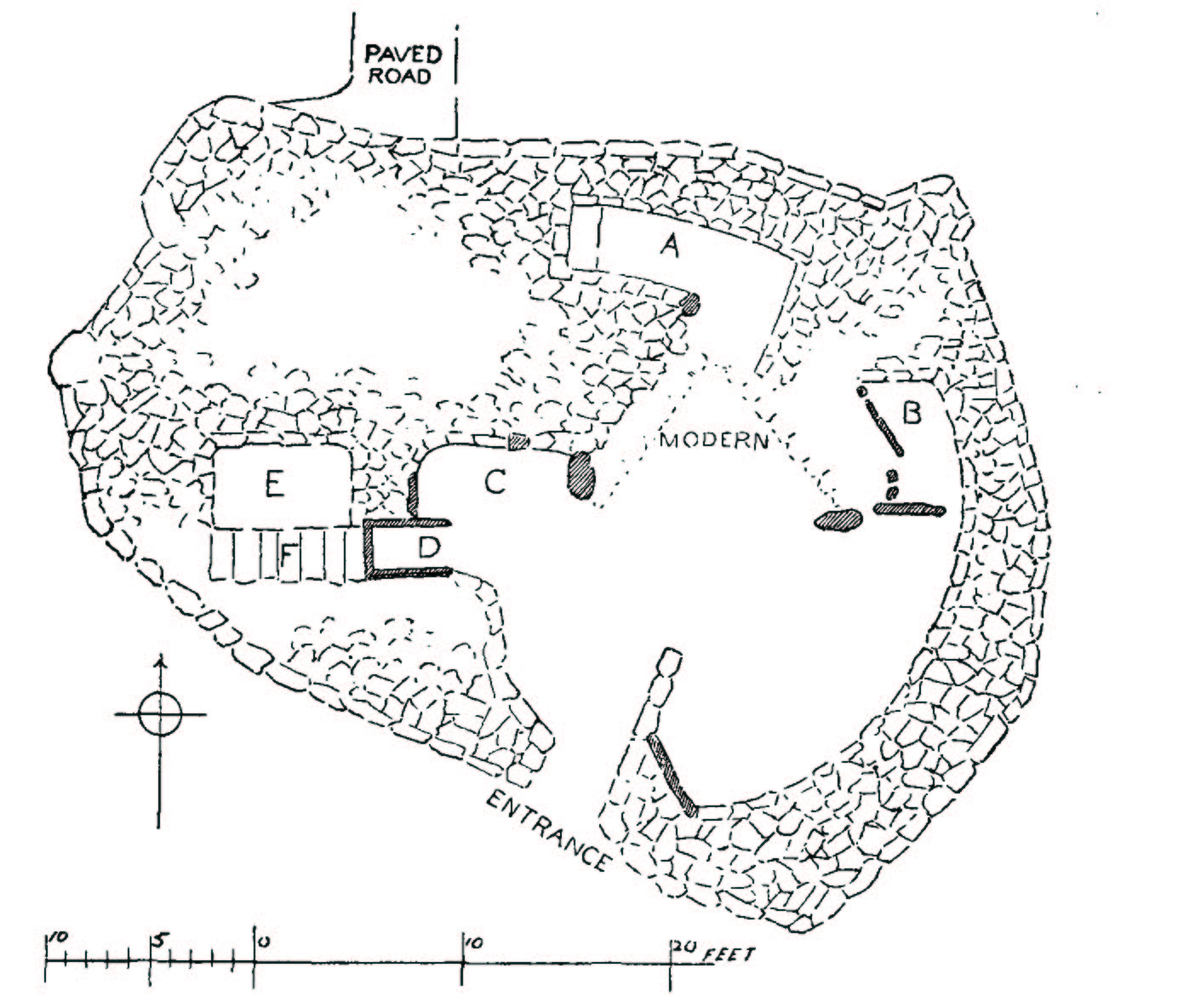 Ground plan of a prehistoric building within the area of the former fishing station "Fedeland", Northmavine, Shetland.